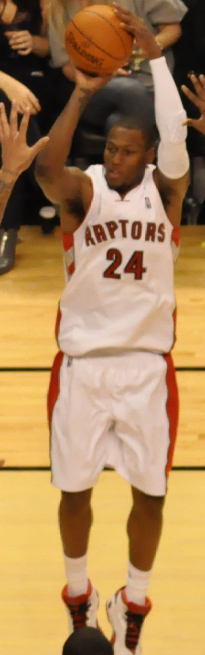 Sonny Weems as a member of Toronto Raptors.